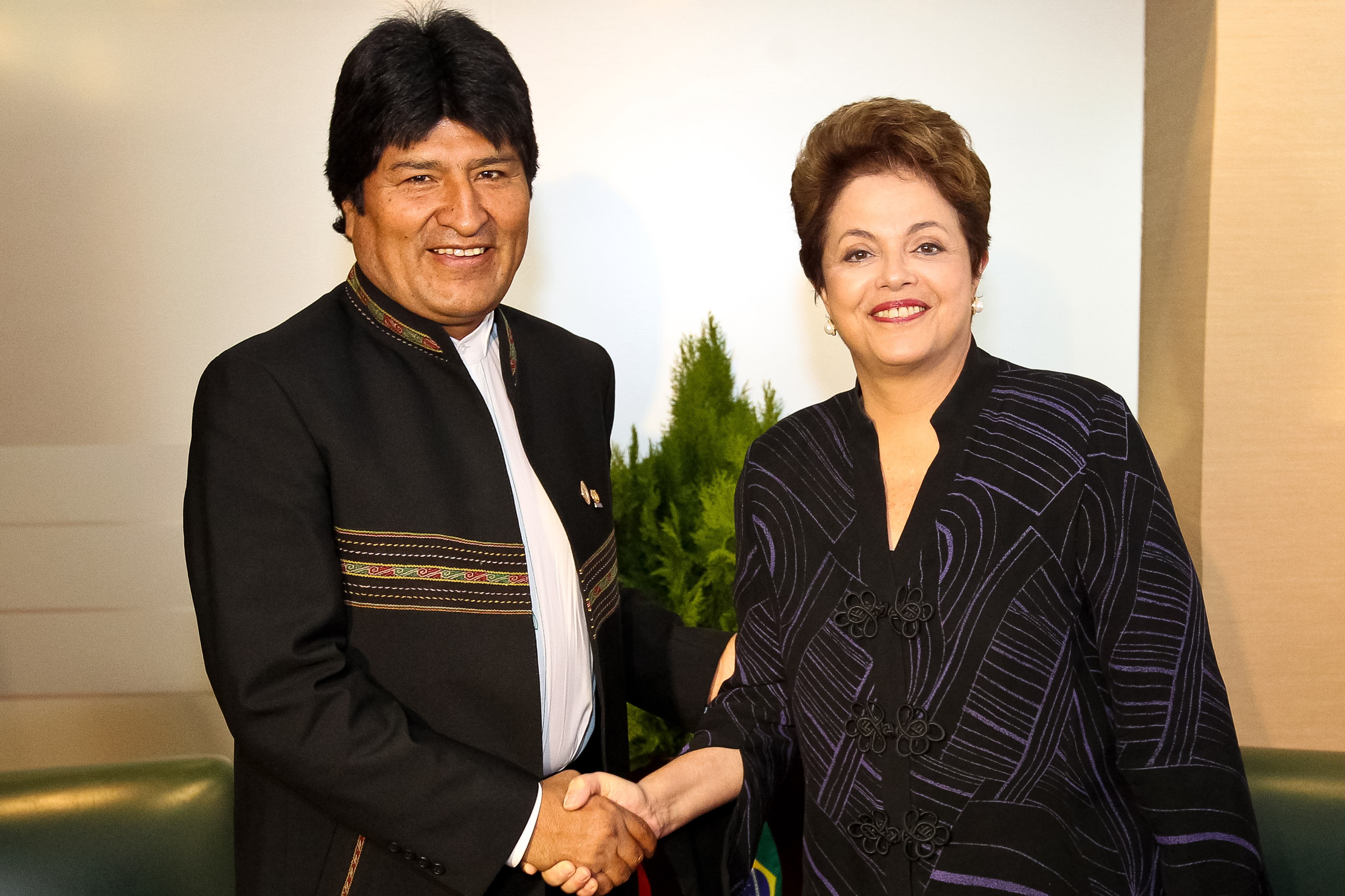 Brazilian President Dilma Rousseff and Bolivian President Evo Morales meet in Caracas, Venezuela.